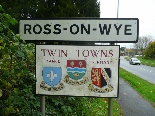 Welcome to Ross-on-Wye The town signs on the A40 road from Gloucester.